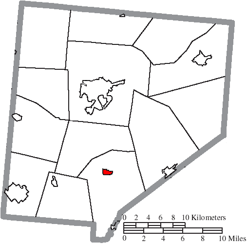 Map of the municipal and township boundaries of Clinton County, Ohio, United States, as of the 2000 census, with the location of the village of Martinsville highlighted. Township borders are shown only in unincorporated areas in order to differentiate incorporated and unincorporated areas more clearly.